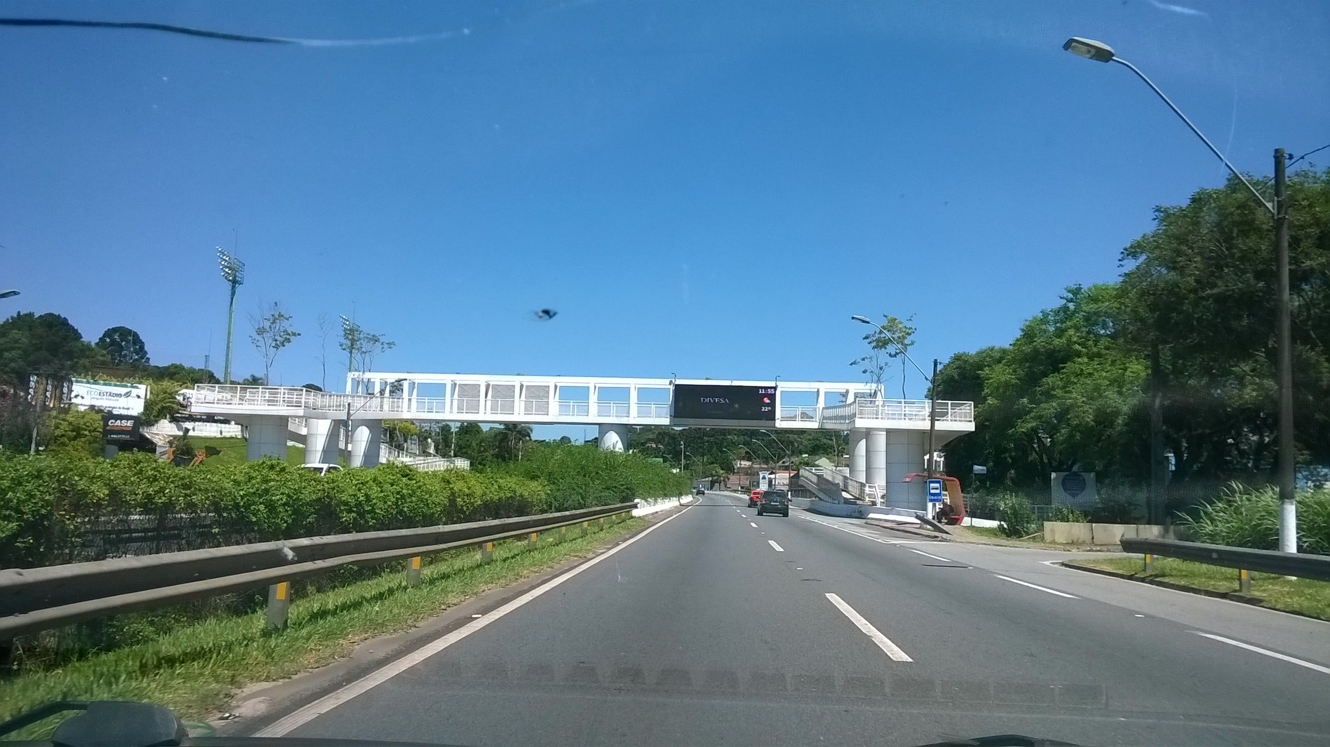 Santo Inácio, Curitiba - State of Paraná, Brazil